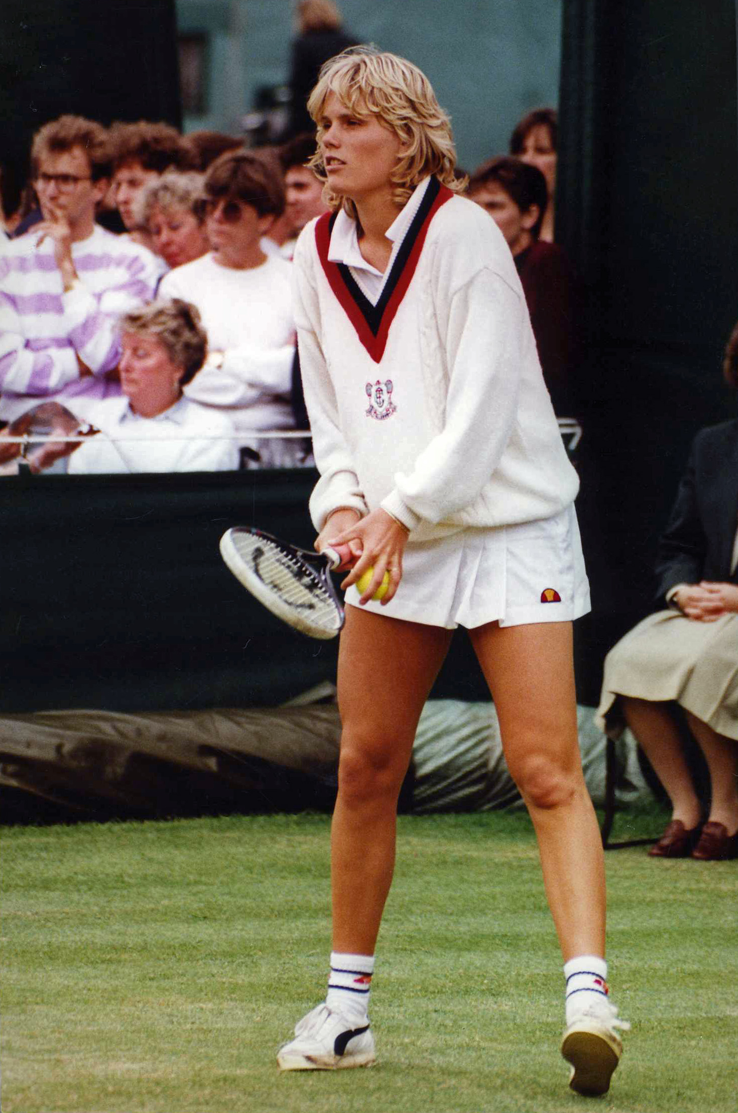 Dutch tennis player Caroline Vis at the 1989 Wimbledon Tennis Championships